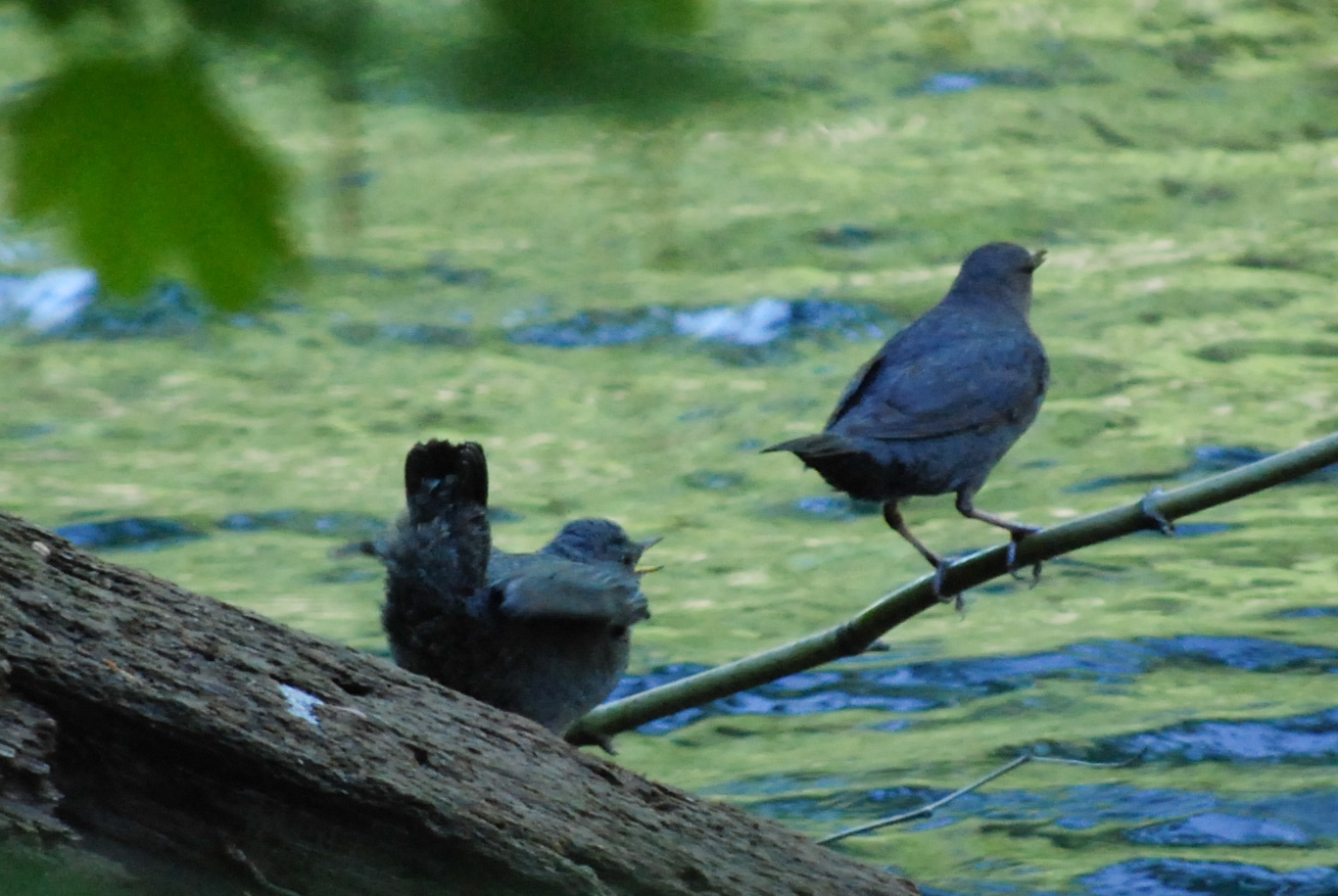 A juvenile (left) with adult (right, on thin branch)